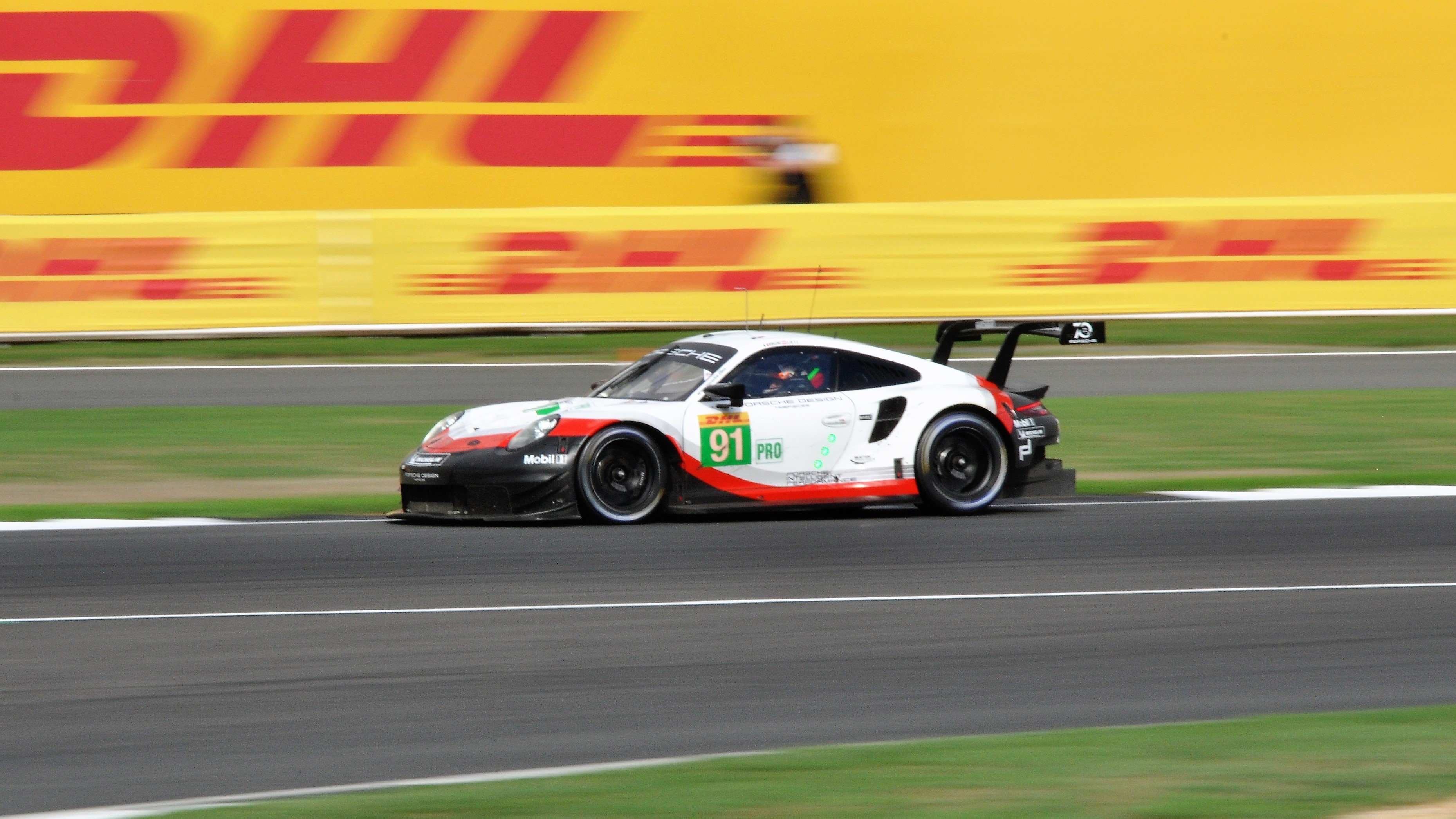 Italian driver Gianmaria Bruni passes the pit lane entrance at Vale in the number 91 works Porsche 911 RSR, during the 2018 6 Hours of Silverstone. Bruni and his co-driver, Richard Lietz, finished second in the LMGTE Pro class but were disqualified after the race as the ride height of their car was found to be too low.